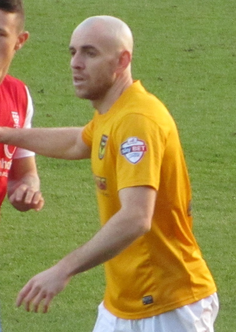 Tom Newey.